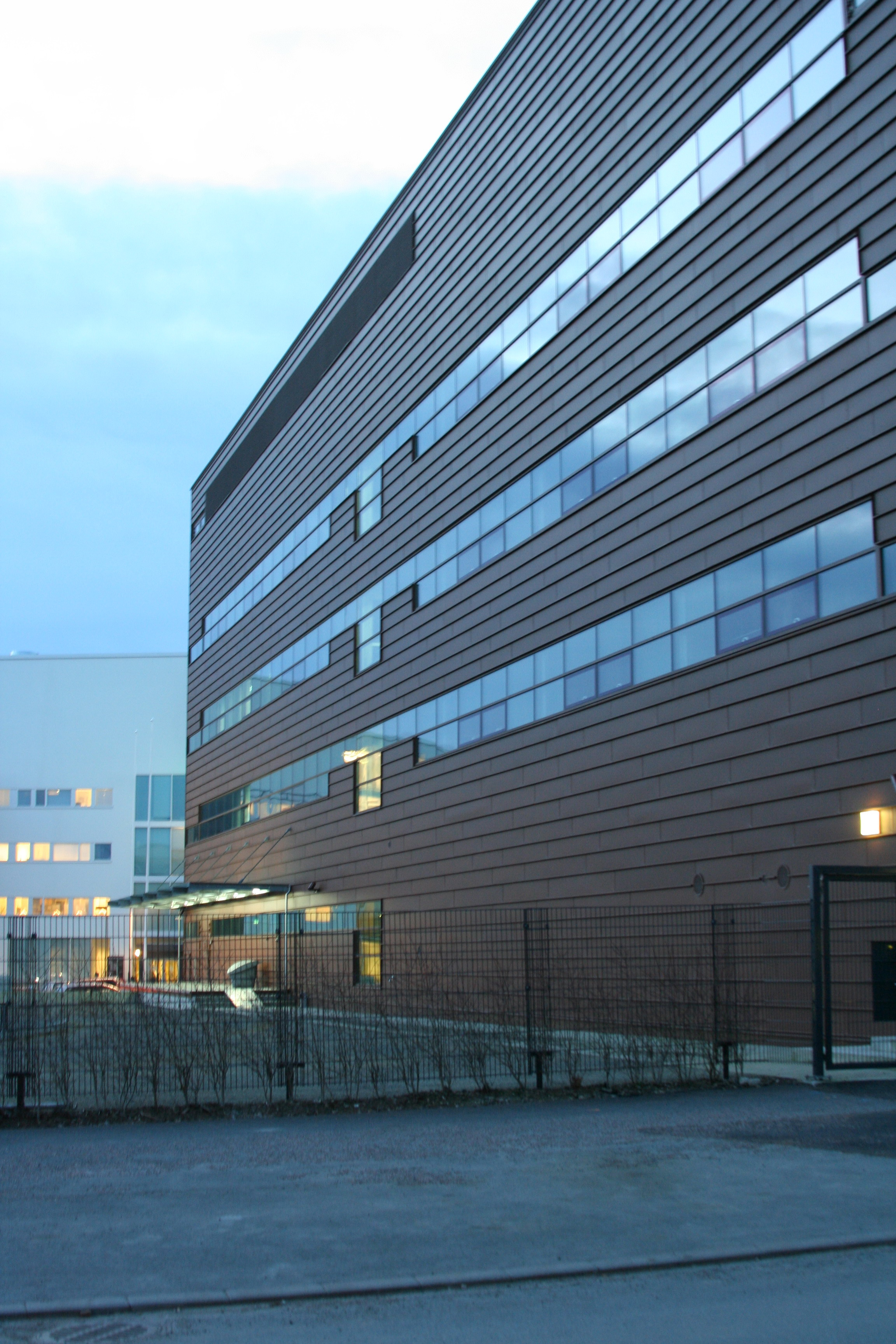 Building of Provincial Archives of Hämeenlinna, Hämeenlinna, Finland. Courtyard side. Completed in 2009. Concrete structure of 2009 -award. Architects Mikko Heikkinen, Markku Komonen and Markku Puumala from Arkkitehtuuritoimisto Heikkinen-Komonen Oy.